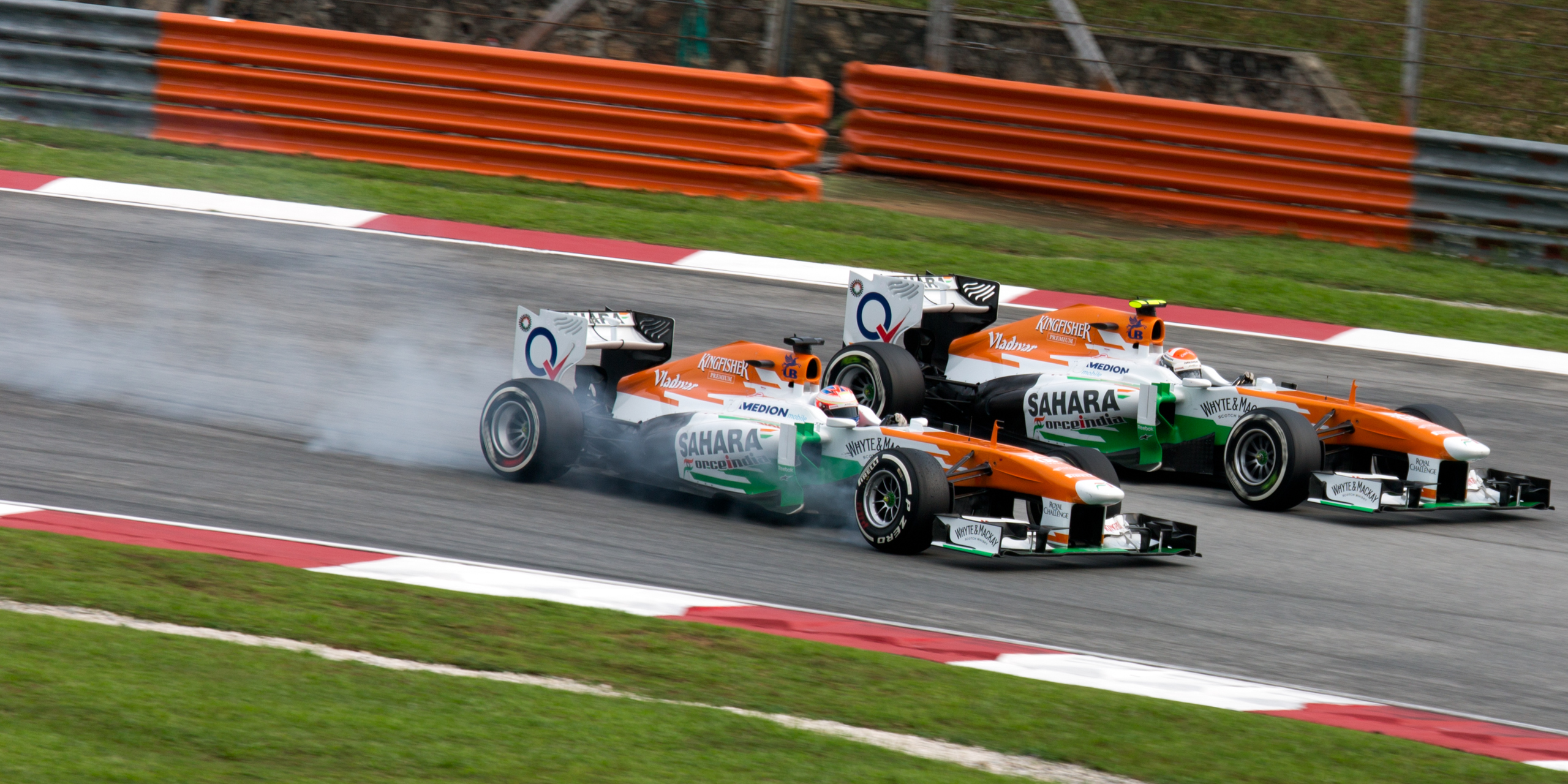 Formula One 2013 Rd.2 Malaysian GP: Paul di Resta (Force India) overtaking Adrian Sutil (Force India).